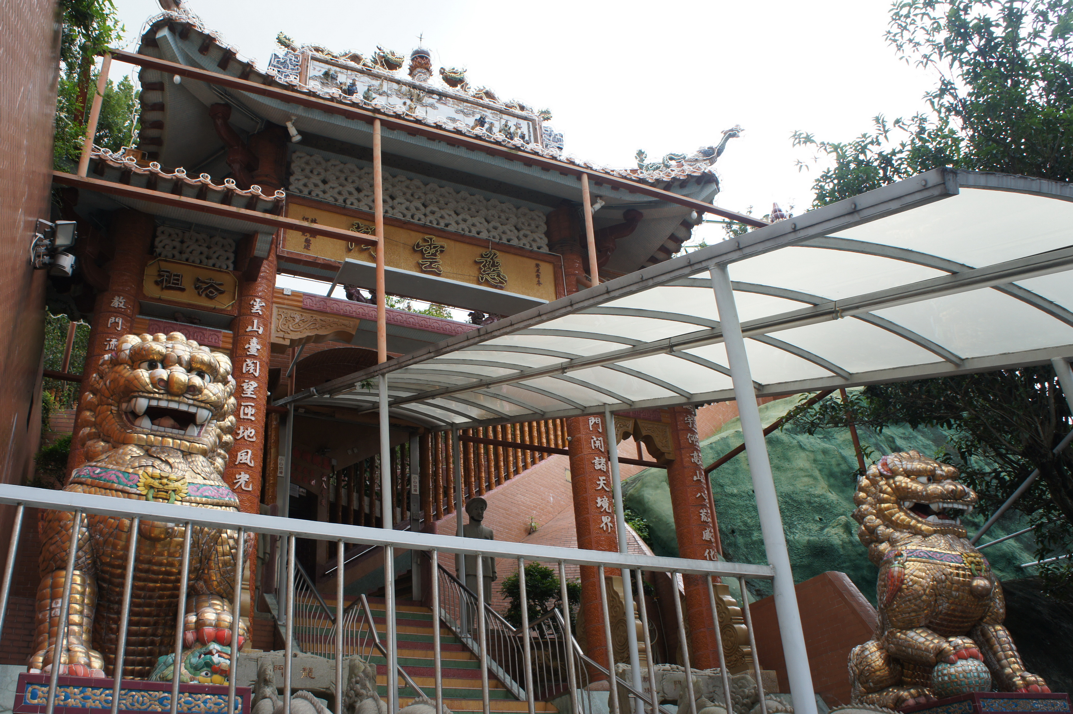 Main entrance of the Tsz Wan Kok Temple, Tsz Wan Shan, Kowloon, Hong Kong.